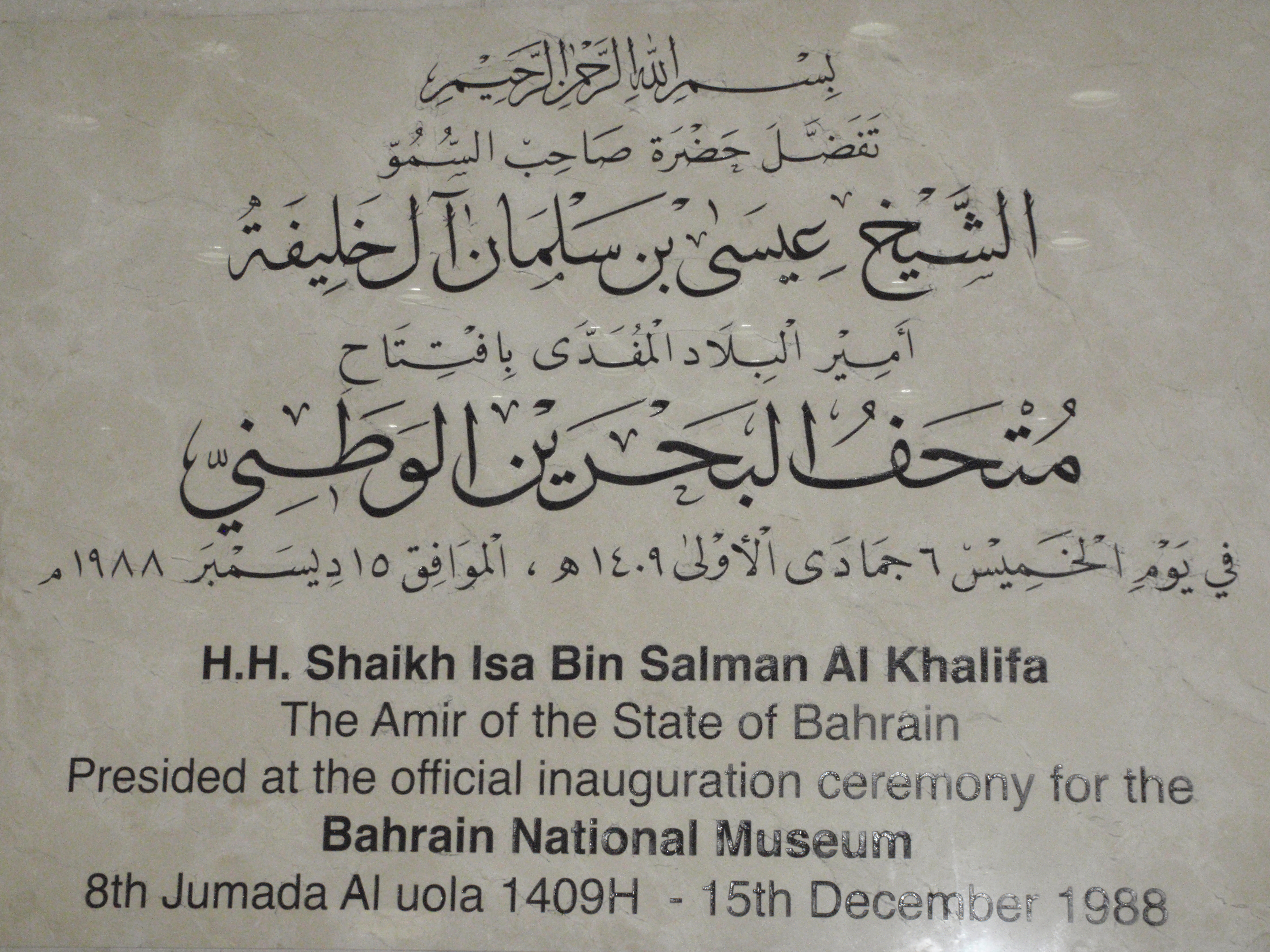 A plaque commemorating the opening of the Bahrain National Museum in both Arabic and English. English caption: "H.H. Shaikh Isa Bin Salman Al Khalifa The Amir of the State of Bahrain Presided at the official inauguration ceremony for the Bahrain National Museum 8th Jumaida Al uola 1409H - 15 December 1988"